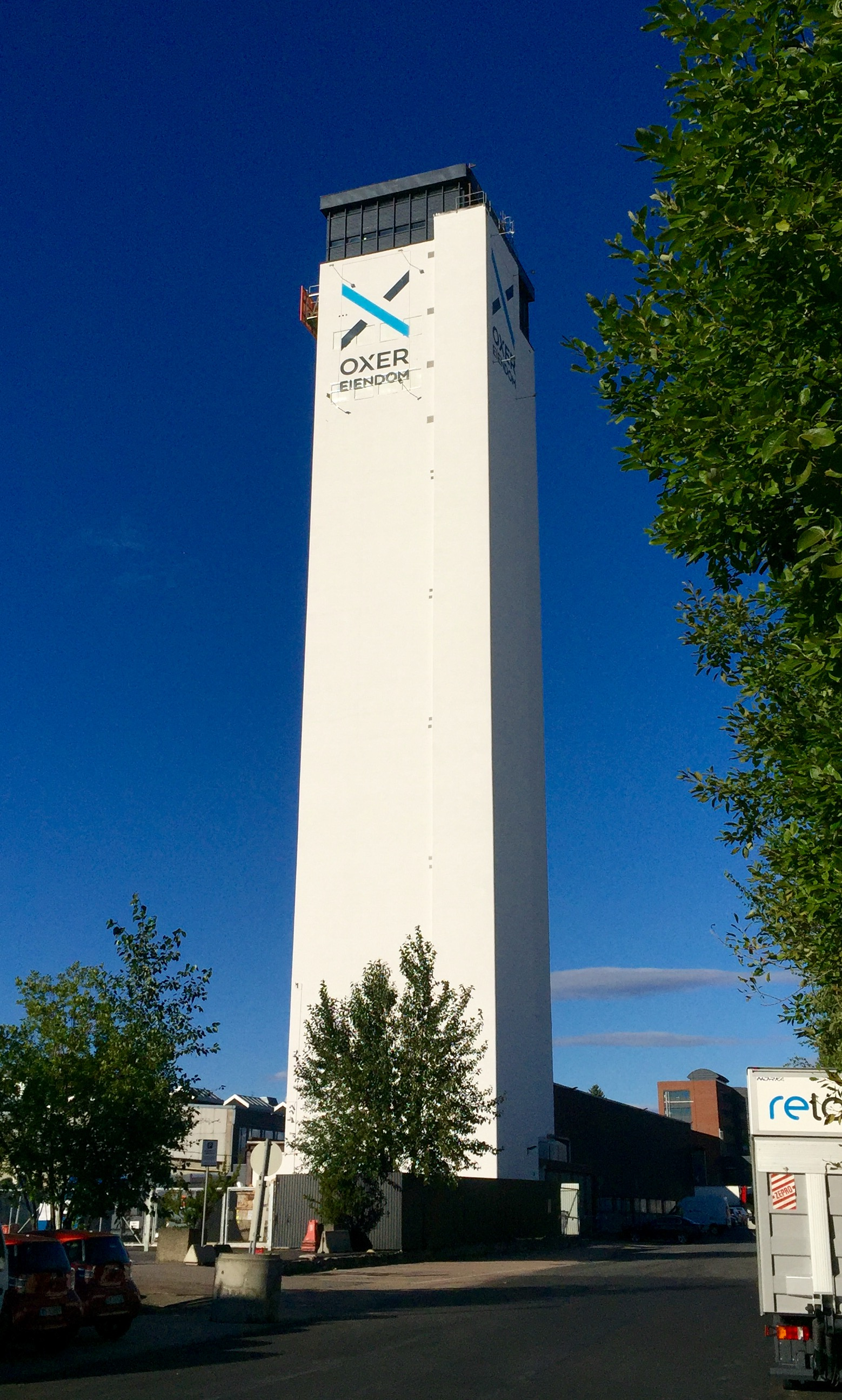 Alcatel tower (no: Alcateltårnet) at Økern in Oslo, Norway